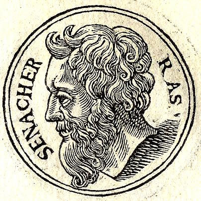 Senacherib was the son of Sargon II, whom he succeeded on the throne of Assyria (704 – 681 BC).